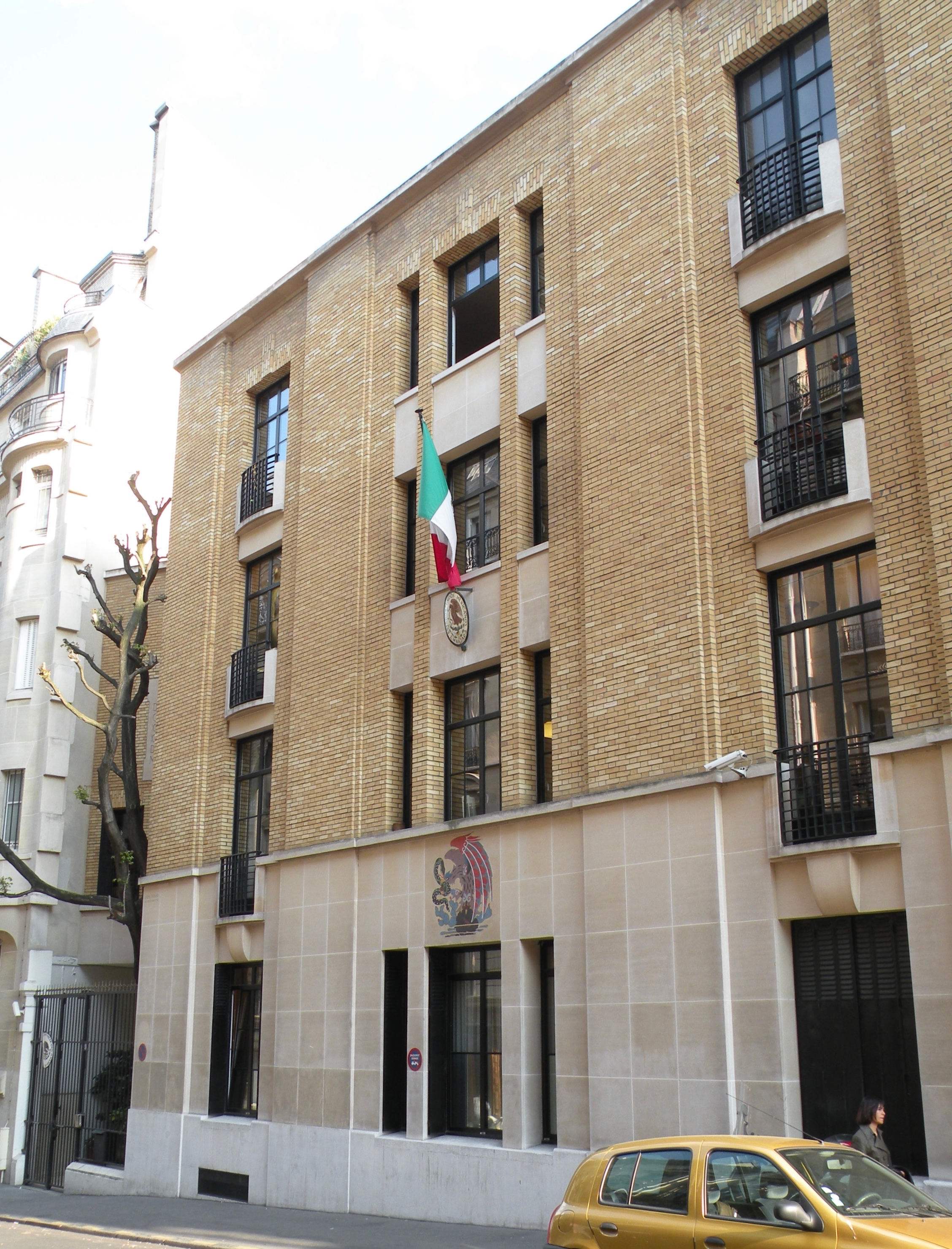 Mexican embassy in France, Paris - 9 rue de Longchamp, Paris